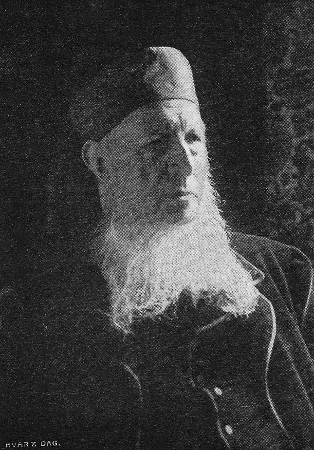 Swedish politician Oscar Ekman (1812-1907).